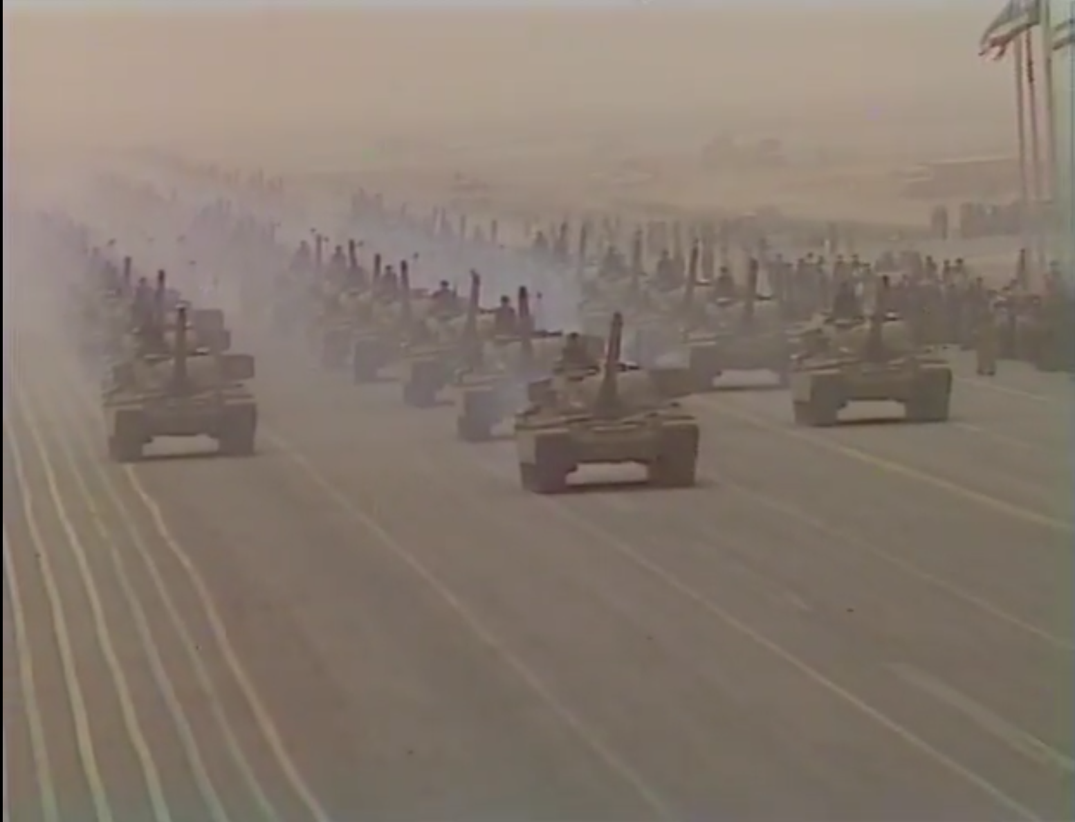 screenshot of Kuwaiti Chieftain tanks during military parade 1981